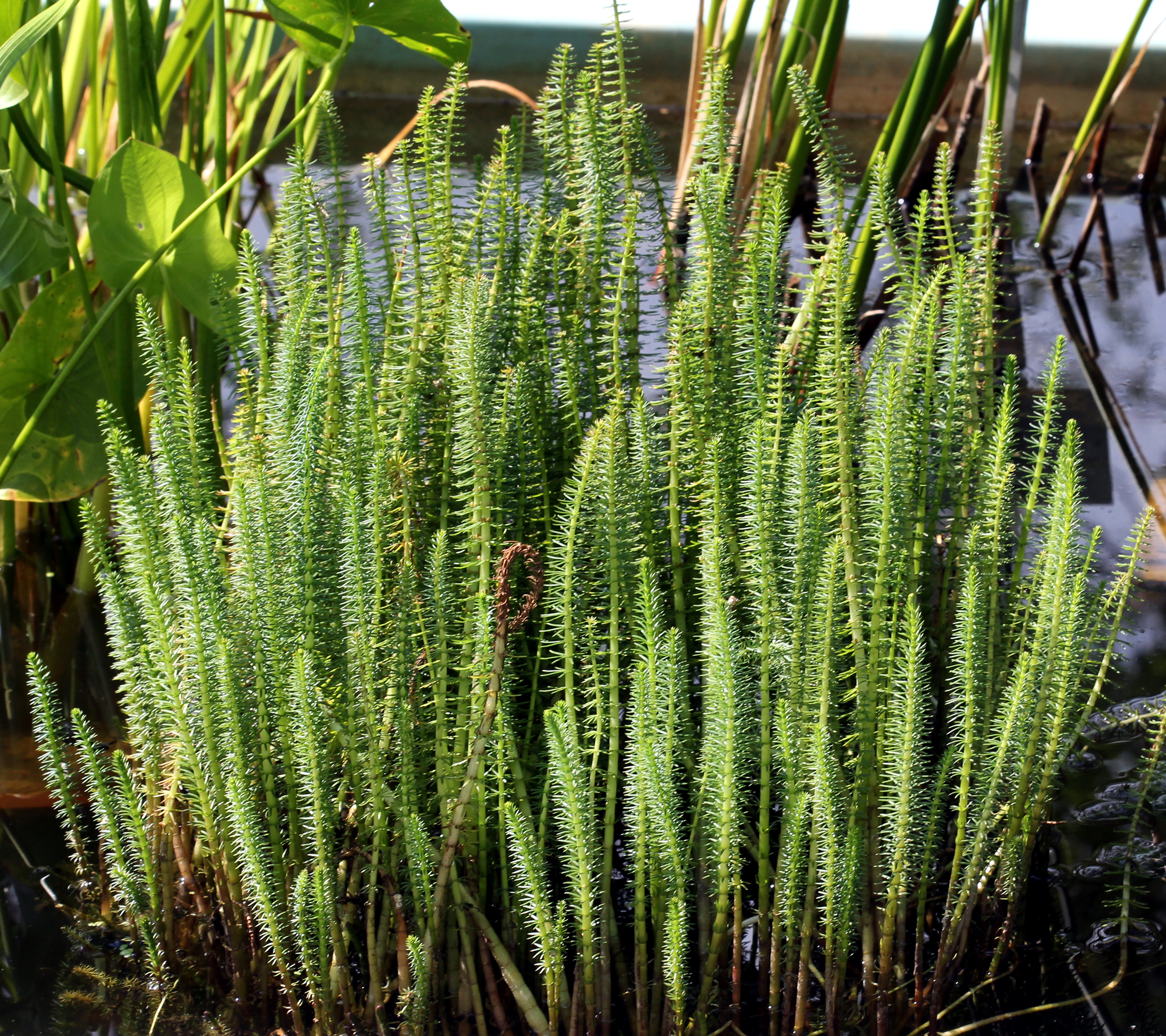 Water plant Hippuris vulgaris, (Hippuris vulgaris), the Botanical Gardens of Charles University, Prague, Czech Republic